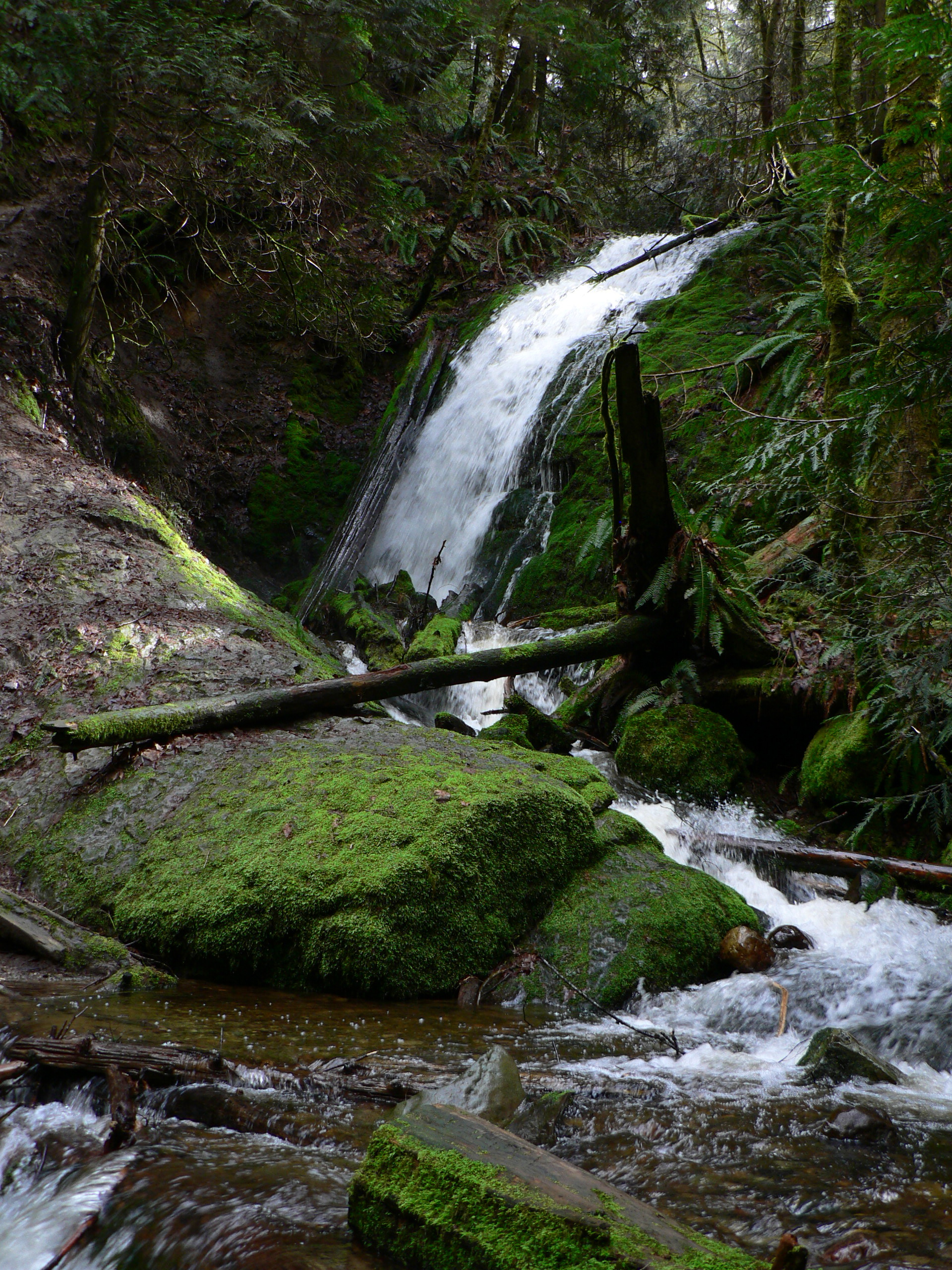 Coal Creek Falls snag, woody debris, moss, Polystichum munitum